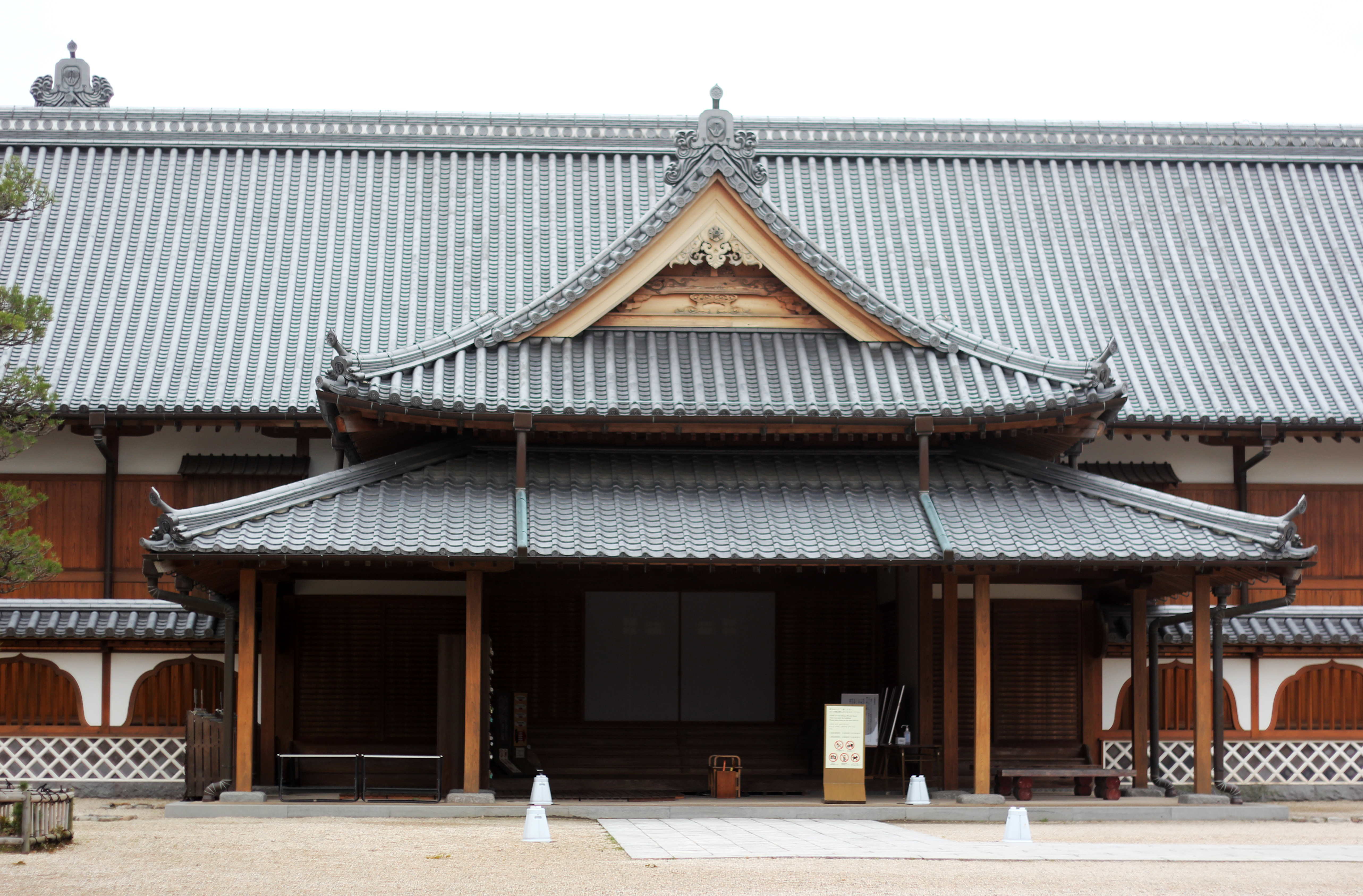 The reconstructed Saga Castle, Saga city, Saga prefecture, Japan